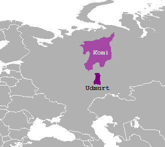 Location of the Permic languages.